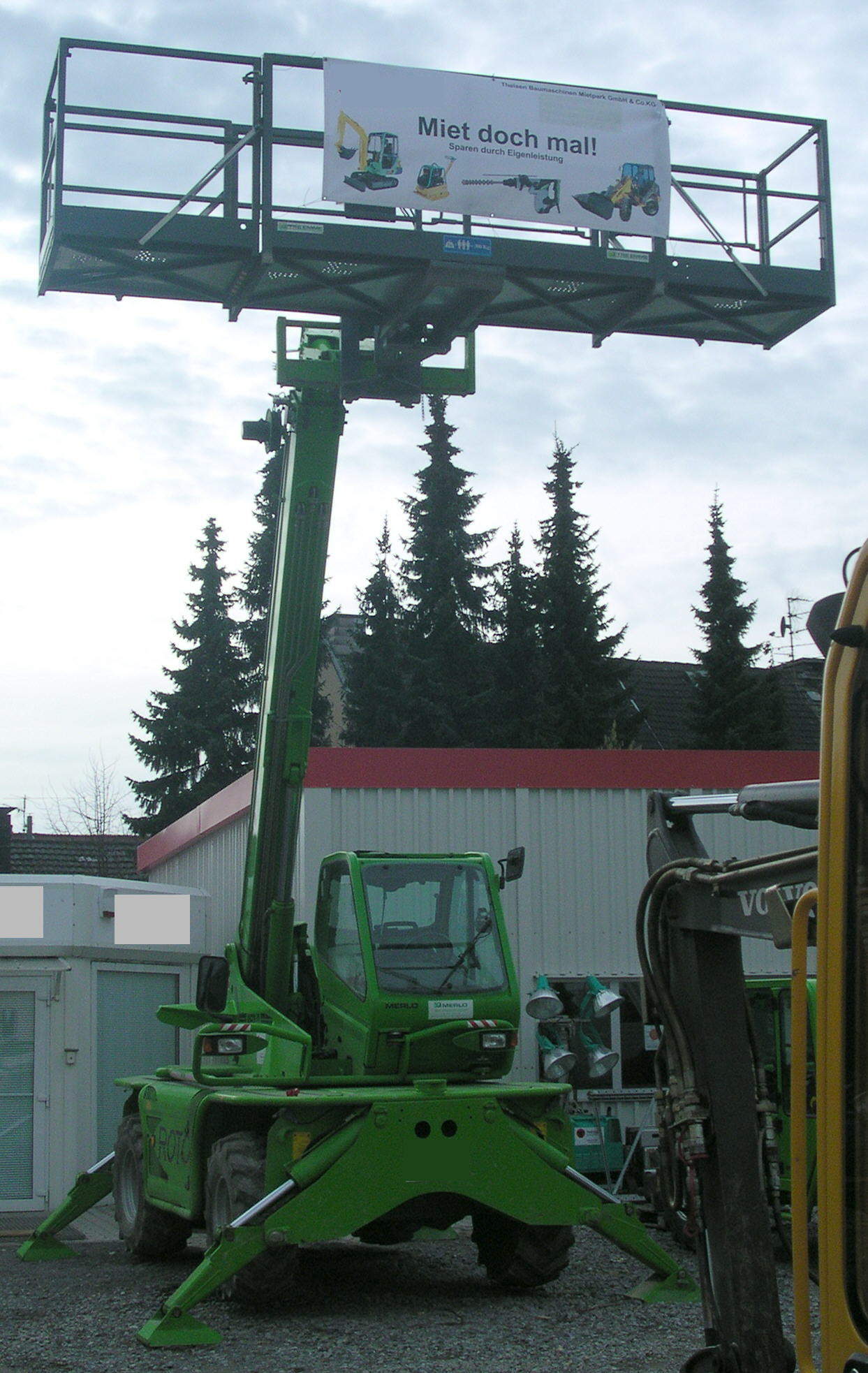 Merlo Roto 35.13 KS telescopic handler with aerial work platform